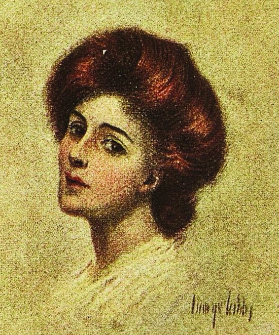 Cover art to Lucy Maud Montgomery's novel Anne of Avonlea